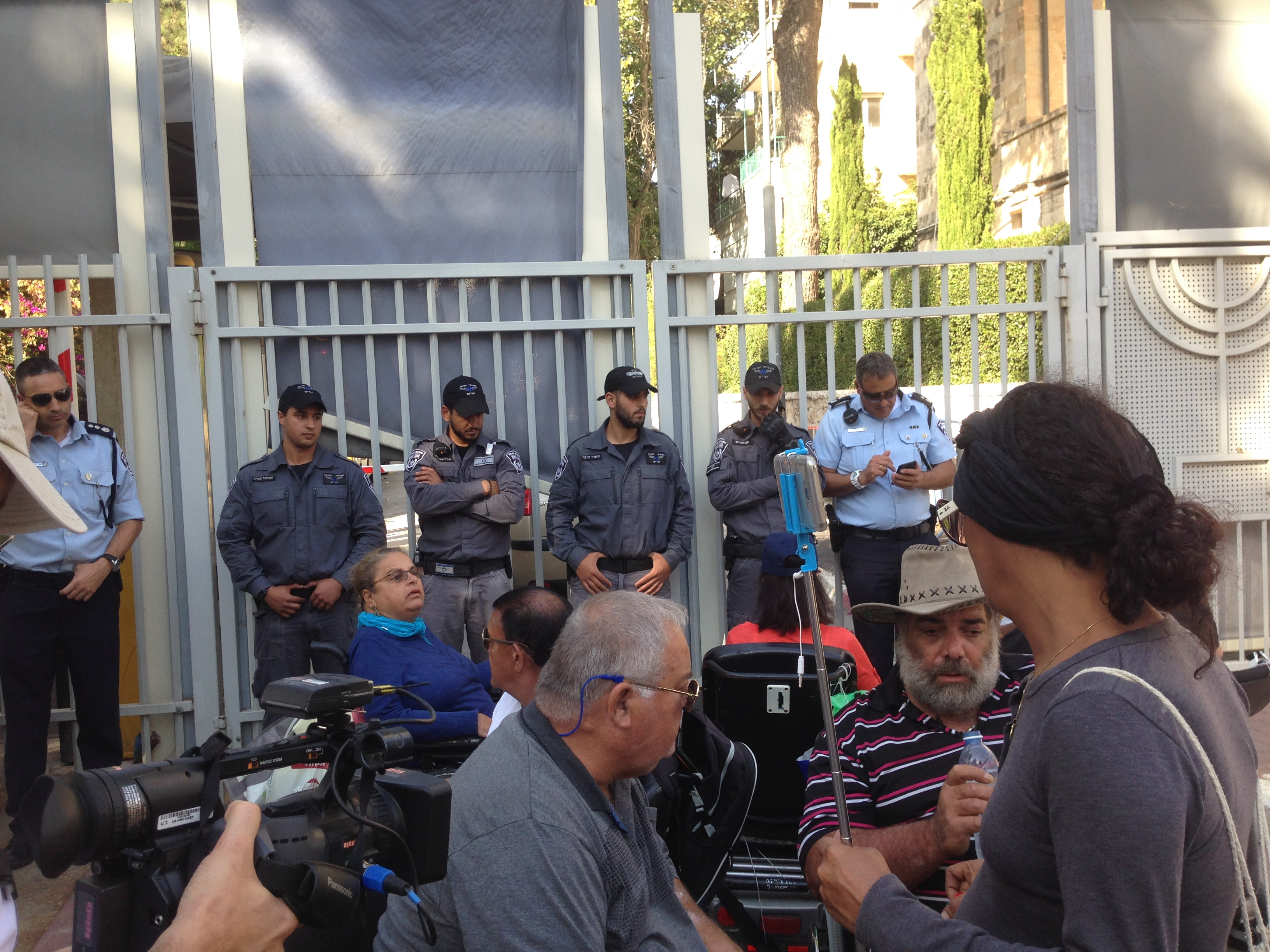 Blocking the entrance to the Prime Minister's Residence in Jerusalem by Disabled Israelis, in their battle for equalizing the disability pension to the minimum wage. Yasam policemen prevent the disabled people from approaching the iron gate.